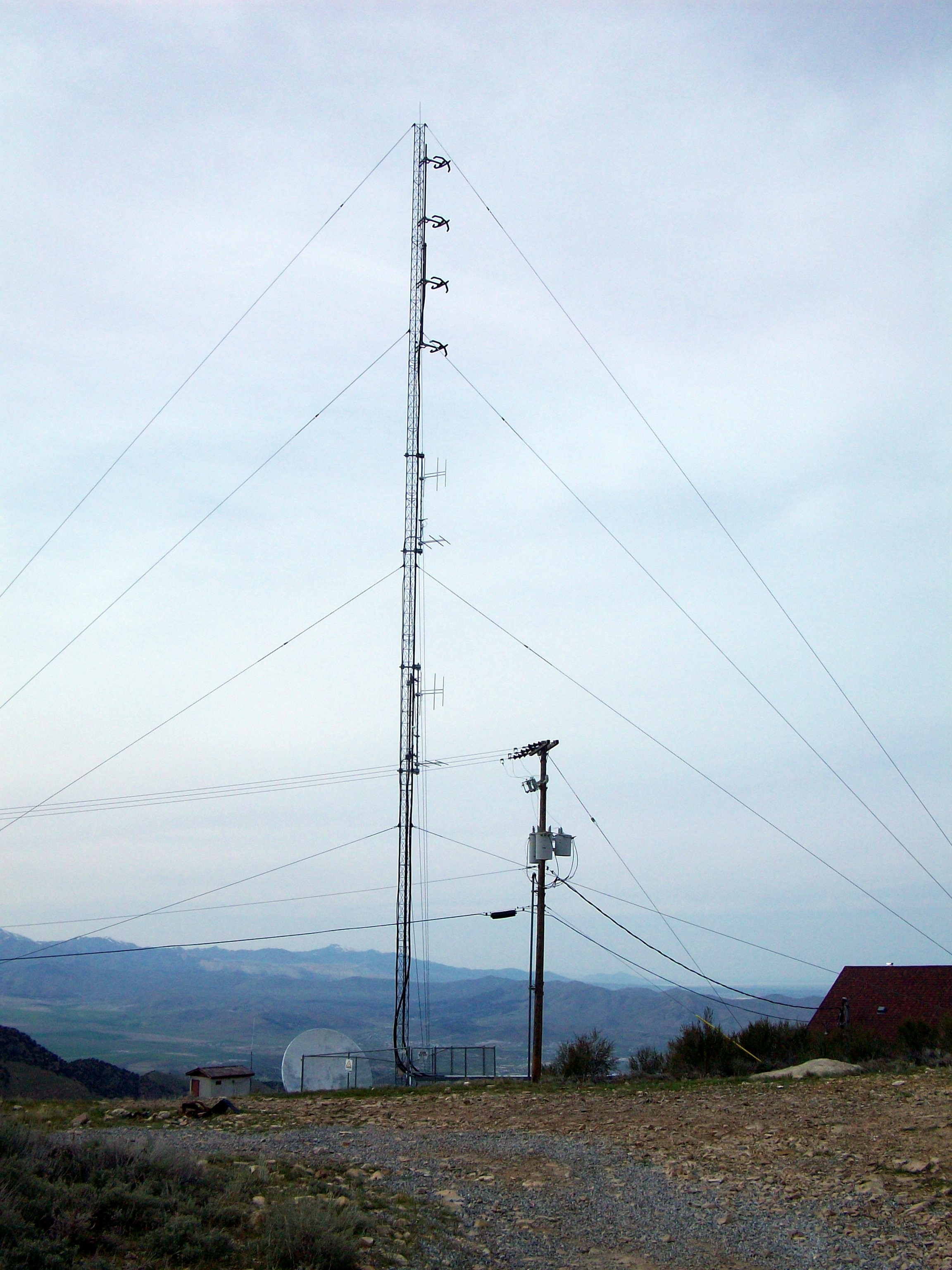 KENZ 94.9 Provo - This is the station's radio tower, located atop Lake Mountain, Utah.